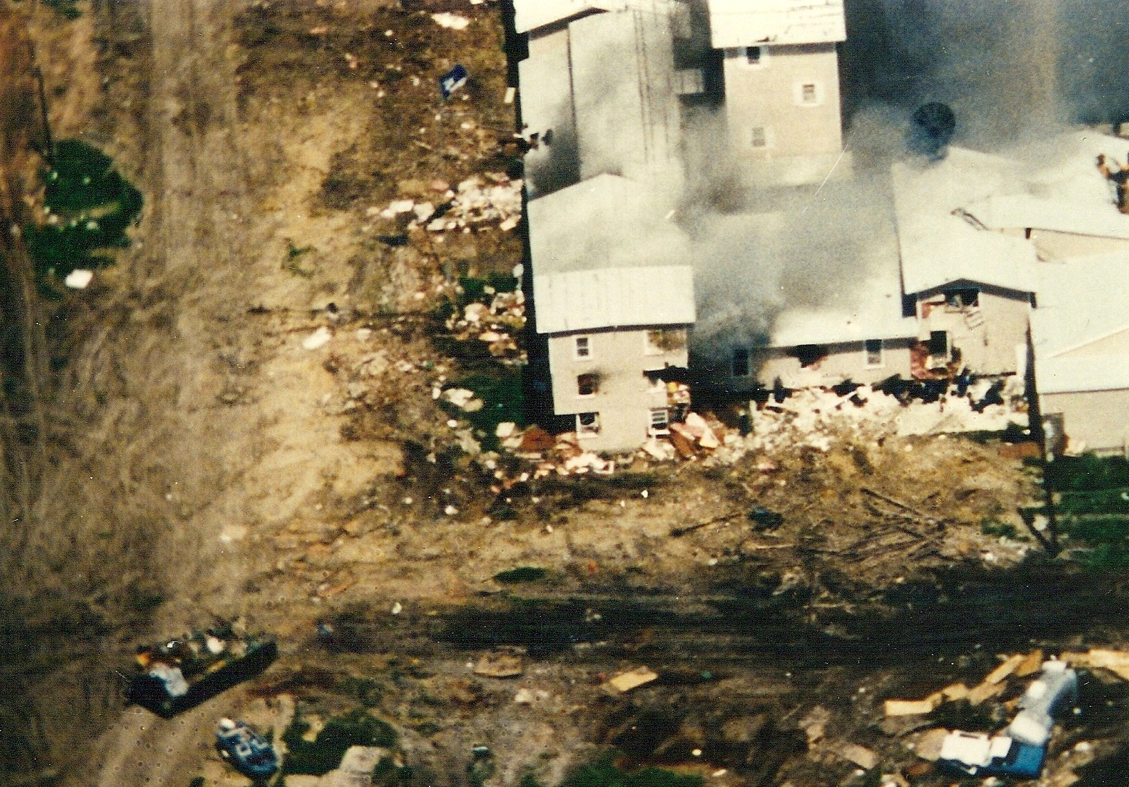 First smoke rises from second floor bedroom soon after tank smashed in right below it.